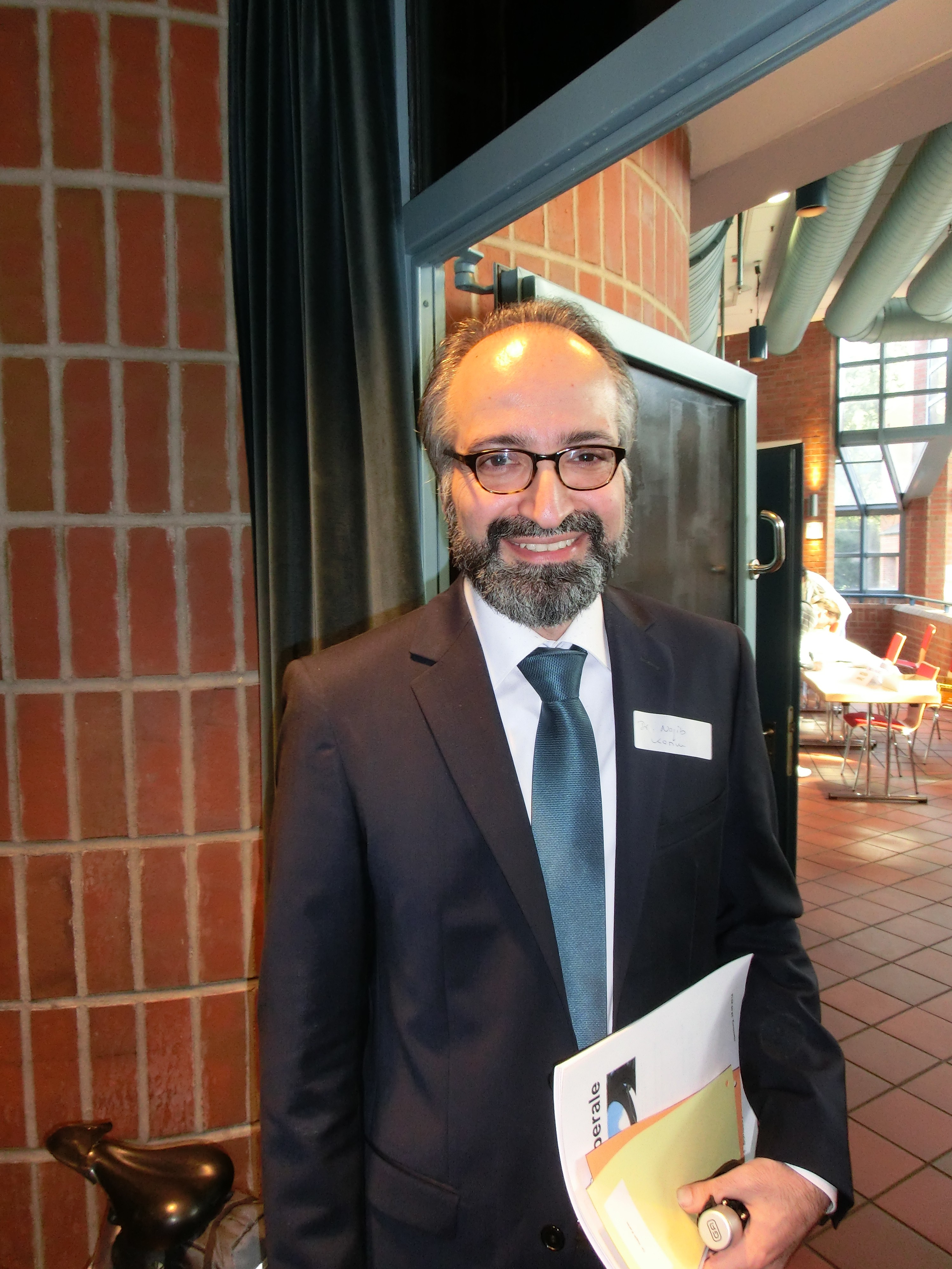 Najib Karim at the founding rally of the new German party "New Liberals" (Neue Liberale)